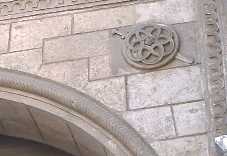 Detail view of the sword and shield from the Bab al Nasr gate, Cairo Egypt.